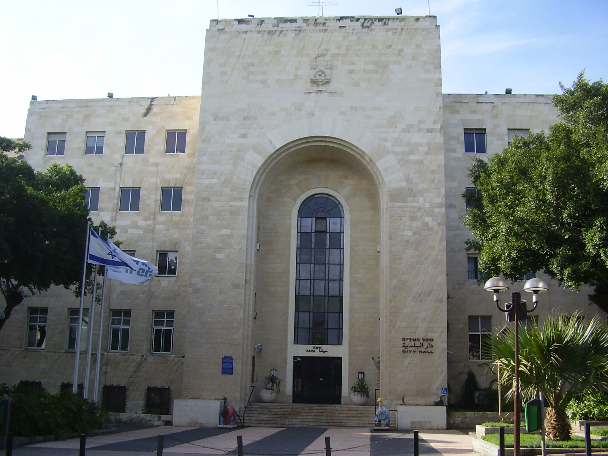 Haifa city hall.